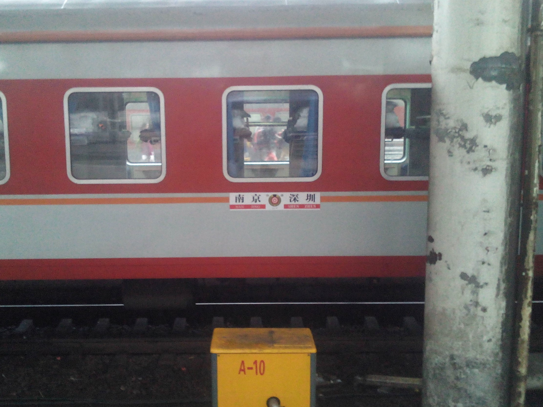 K25 26 infoboard in 201504. Taken at Nanjing Station